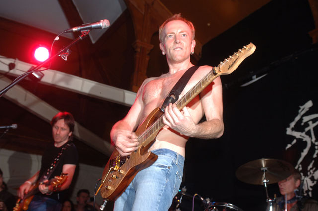 Email sent to concerning [Ticket#2007070210006251] Simon Laffy jpg and this image manraze02.jpg